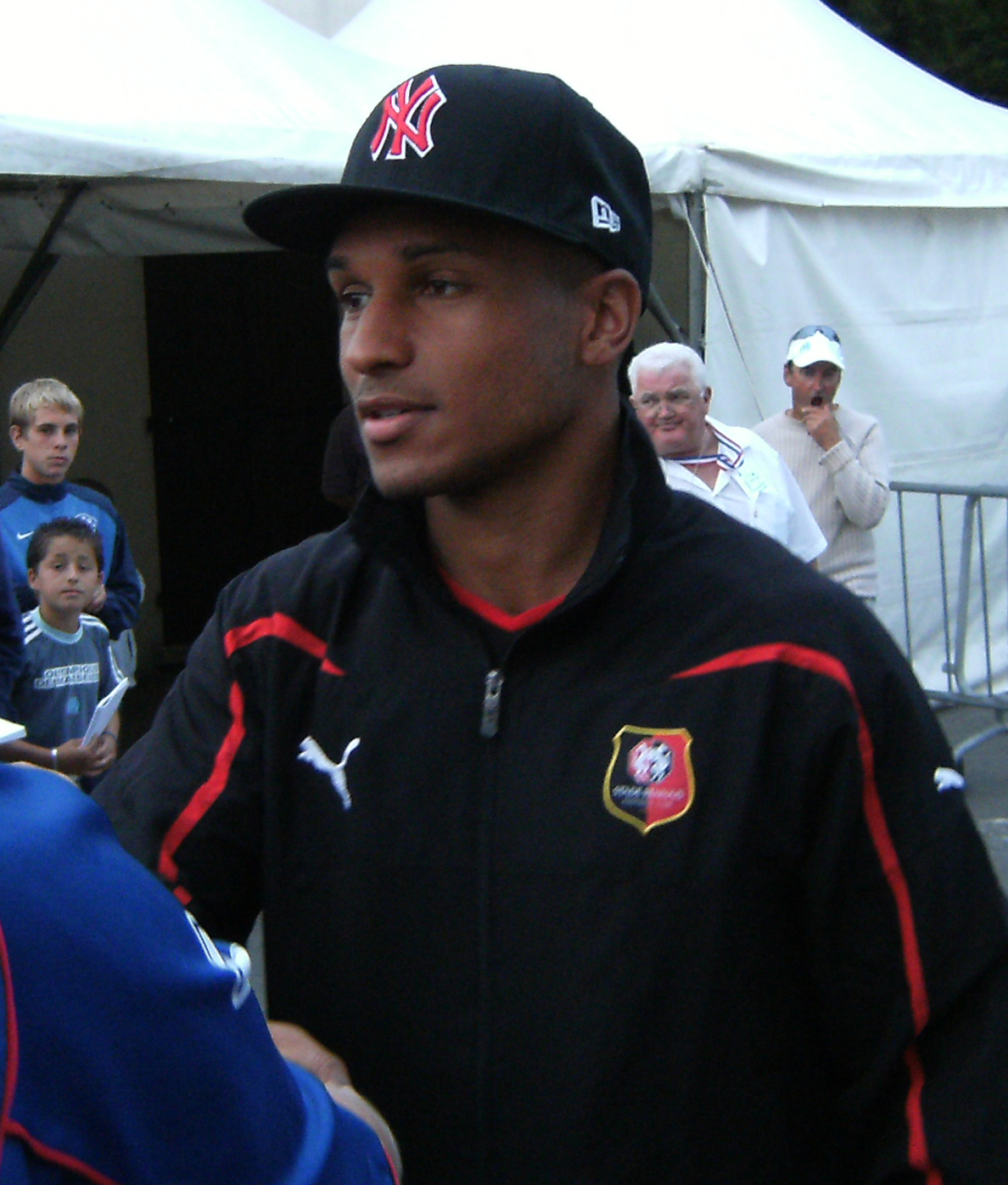 Sylvain Marveaux after a friendly game between Stade rennais FC and Stade Malherbe de Caen in Ouistreham